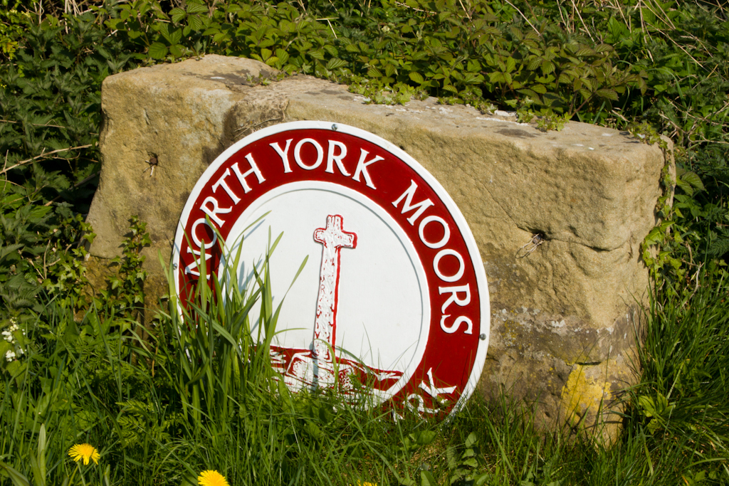 North York Moors National Park sign